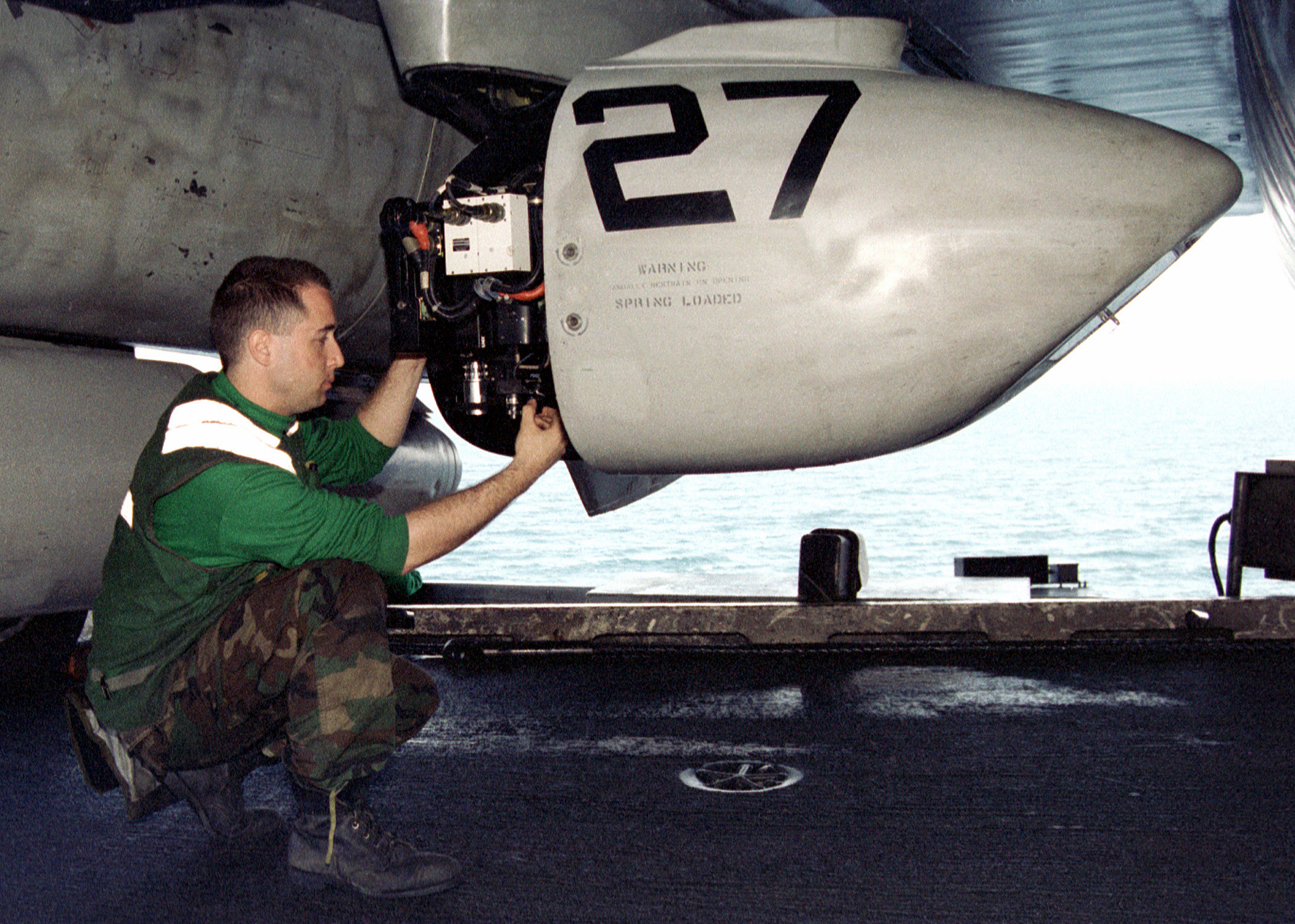 Photographer's Mate 3rd Class (PH3) Jason Stiles double checks the aperture and lens angle on an F-14 Tomcat mounted (TARPS) digital camera on board the conventional aircraft carrier USS INDEPENDENCE (CV 62). The INDEPENDENCE is forward deployed to the Persian Gulf in support of Operation SOUTHERN WATCH, 12 April 1998.